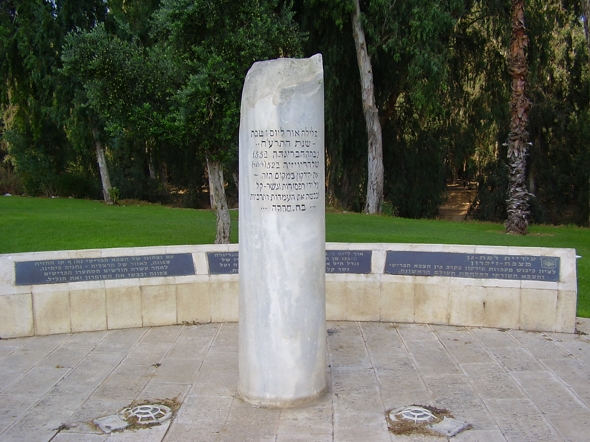 world war 1 memorial for the british soldiers, ramat gan , israel